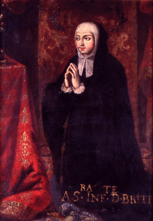 Infanta Beatrice of Portugal, Duchess of Viseu (1430-1506)